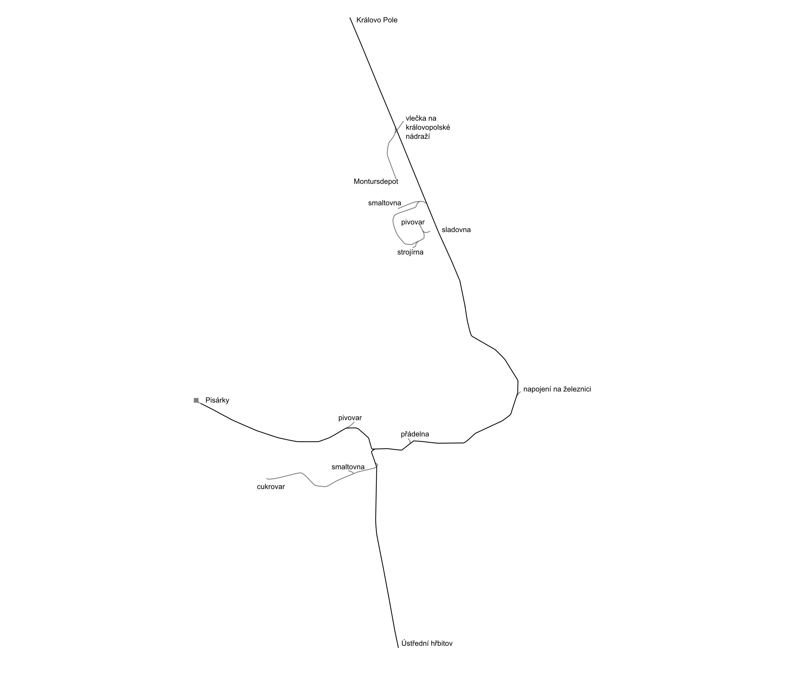 Steam tram network in Brno (situation in 1897), Czech Republic